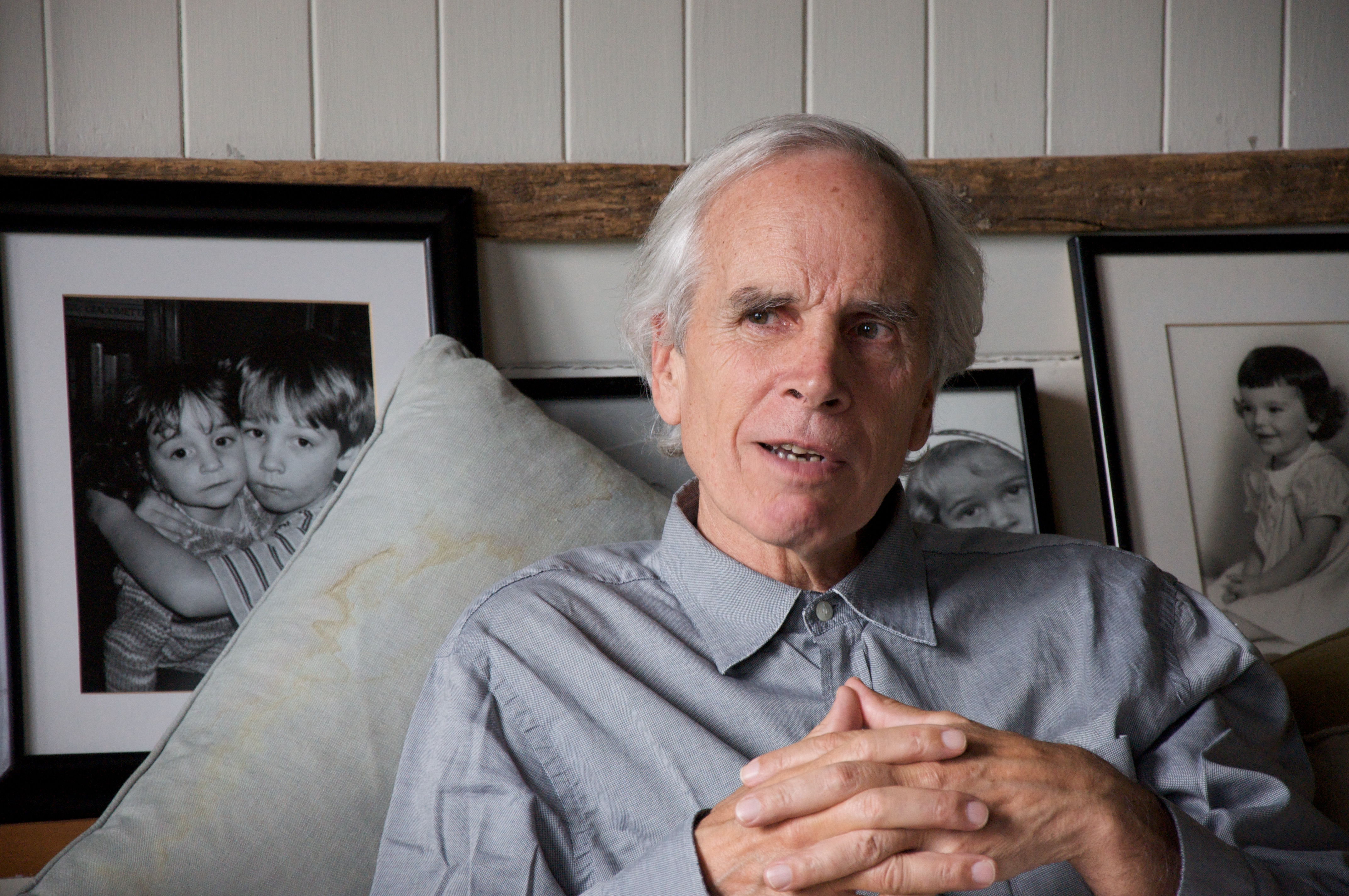 Douglas Tompkins (born 1943 in New York) was an American environmentalist and former businessman.